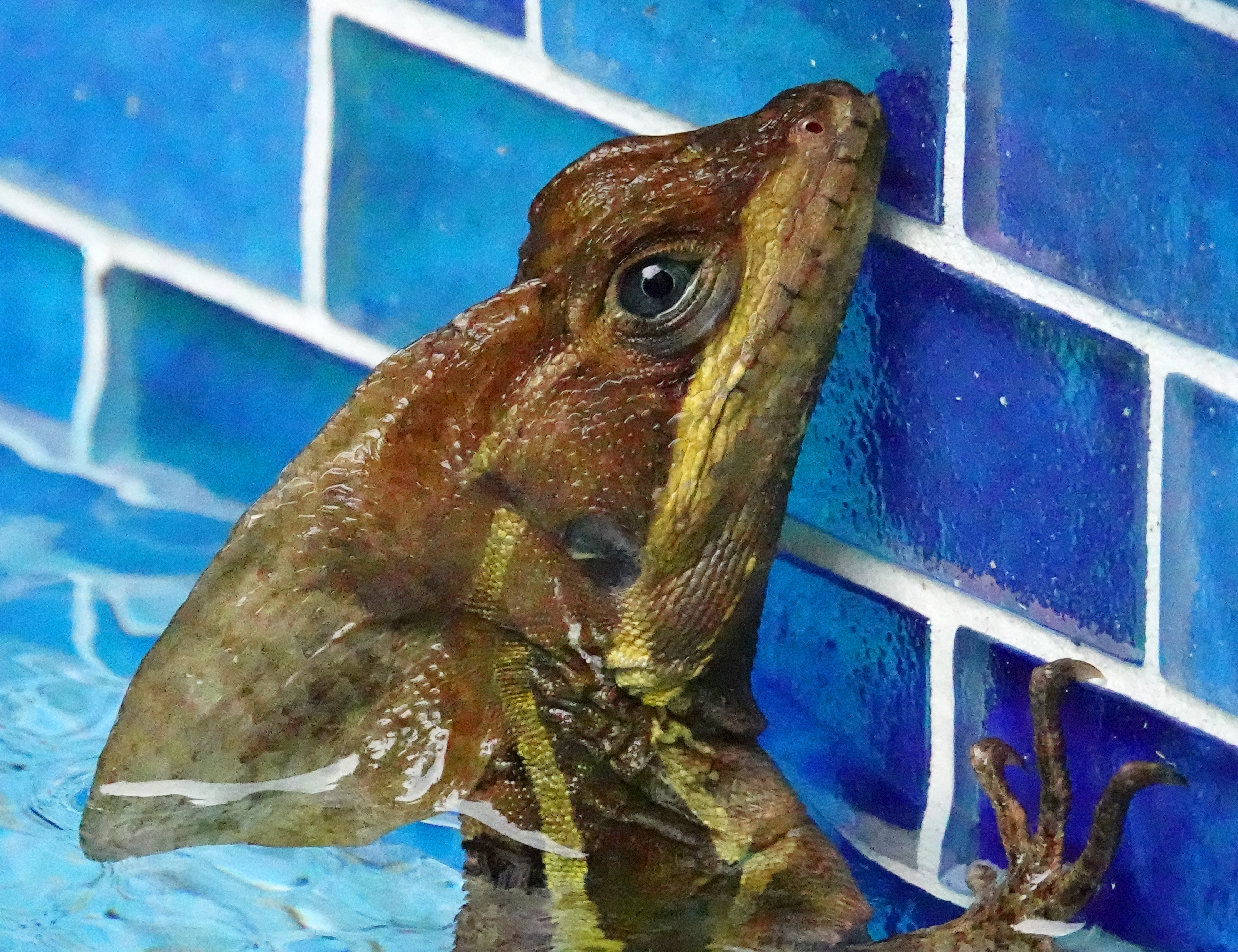 Basiliscus found in swimming pool in West Palm Beach, Palm Beach County, Florida